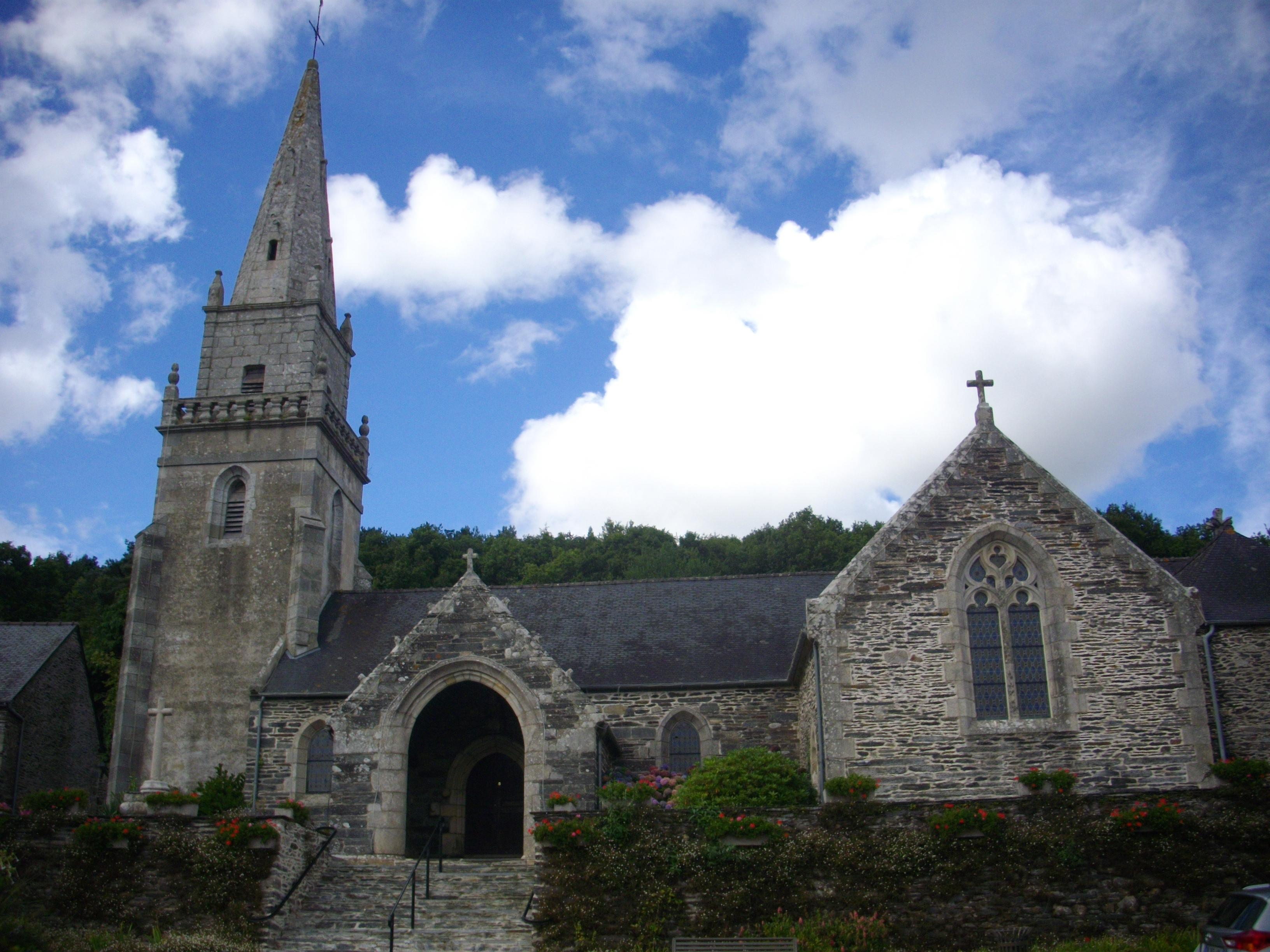 Our Lady church of Caurel (Côtes-d'Armor, France)